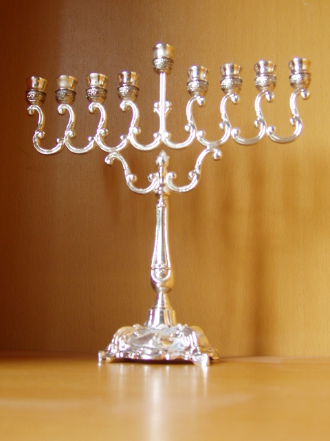 Hanukkah menorah, known also as Hanukiah. Česky: Chanukový svícen chanukija